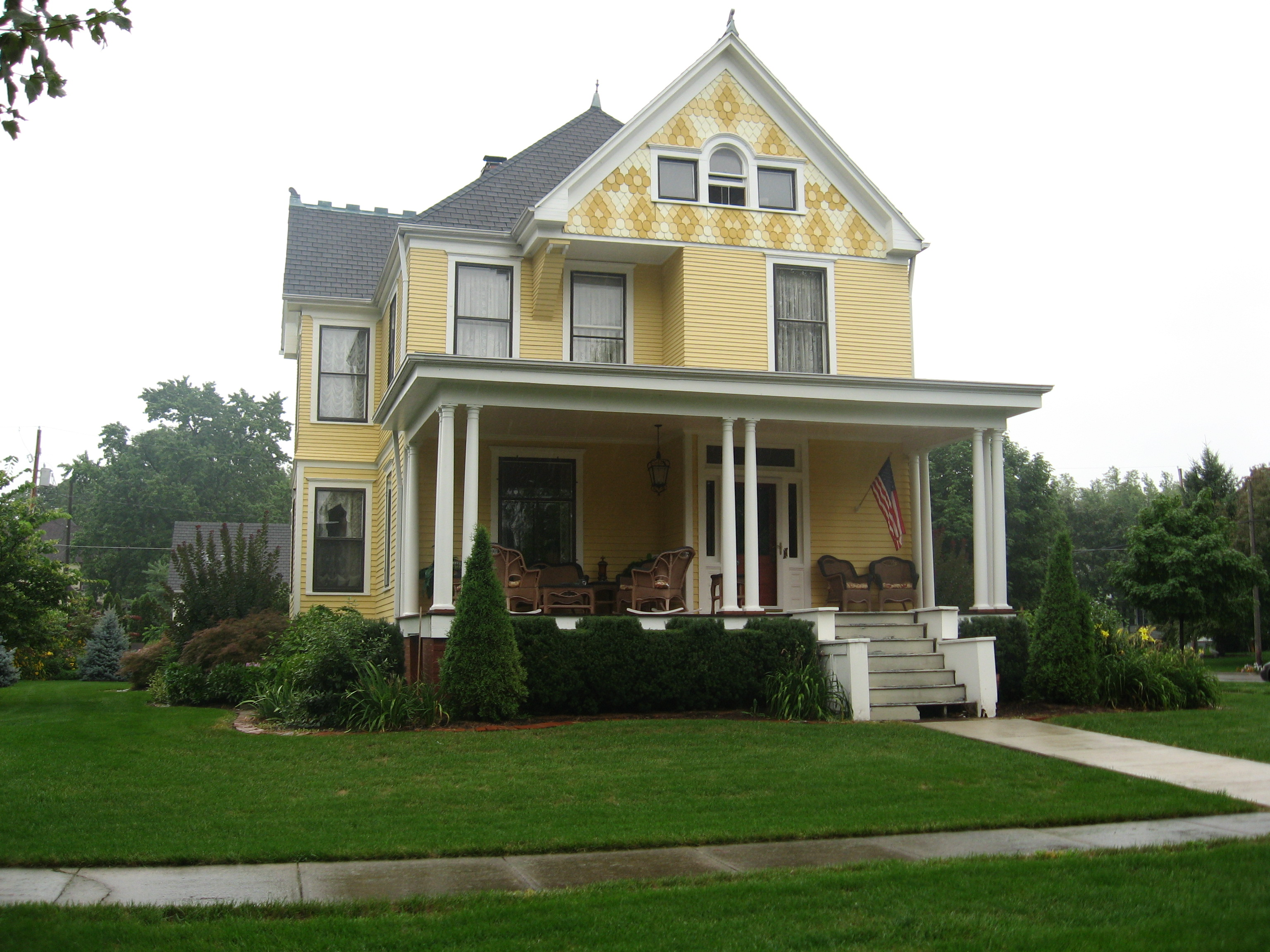 The Alfred Phillips House in Illinois, USA. (pkensel-hammes, took photo myself)